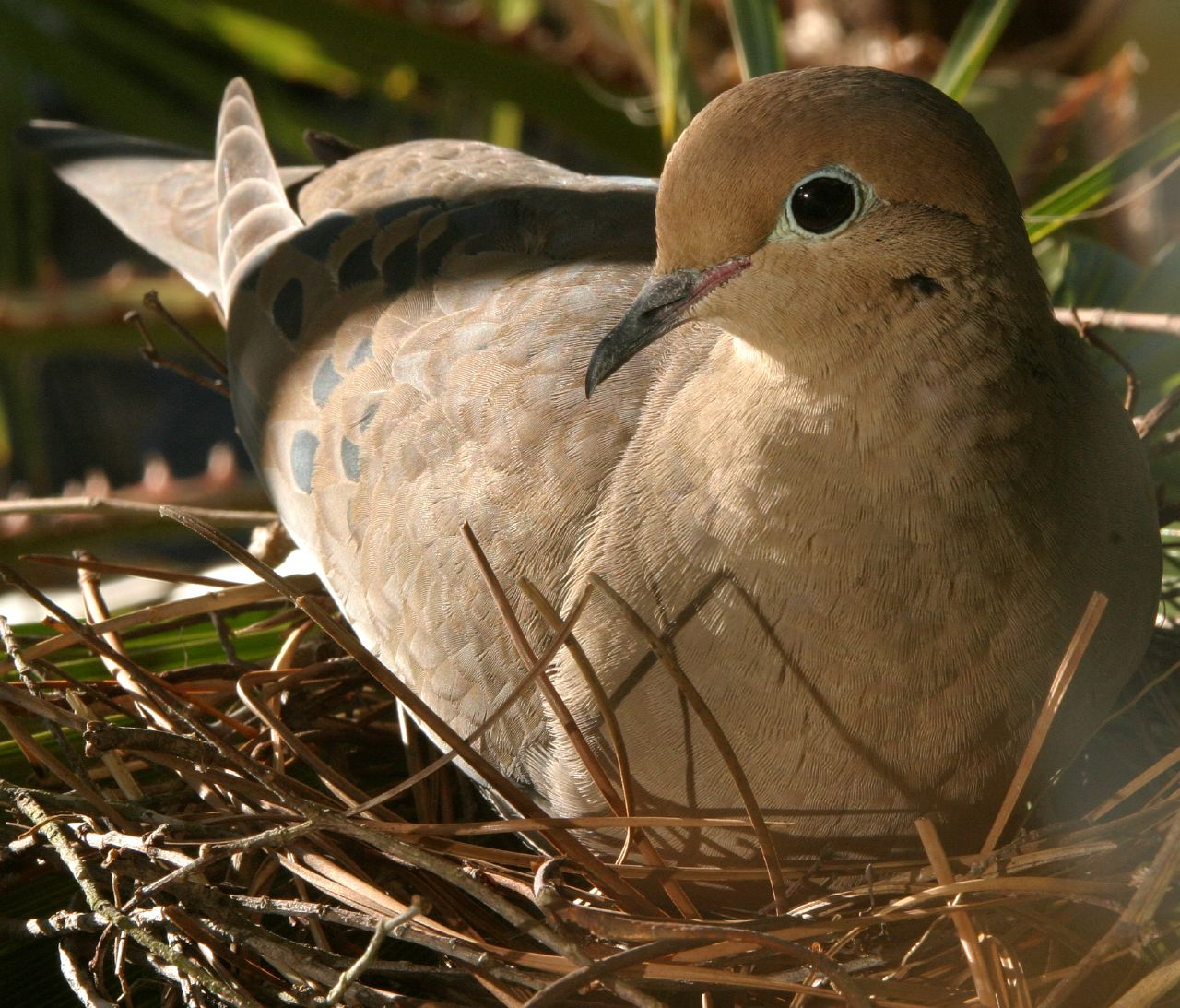 A female Mourning Dove incubating her eggs on the nest. Turners Rock, Georgia, USA